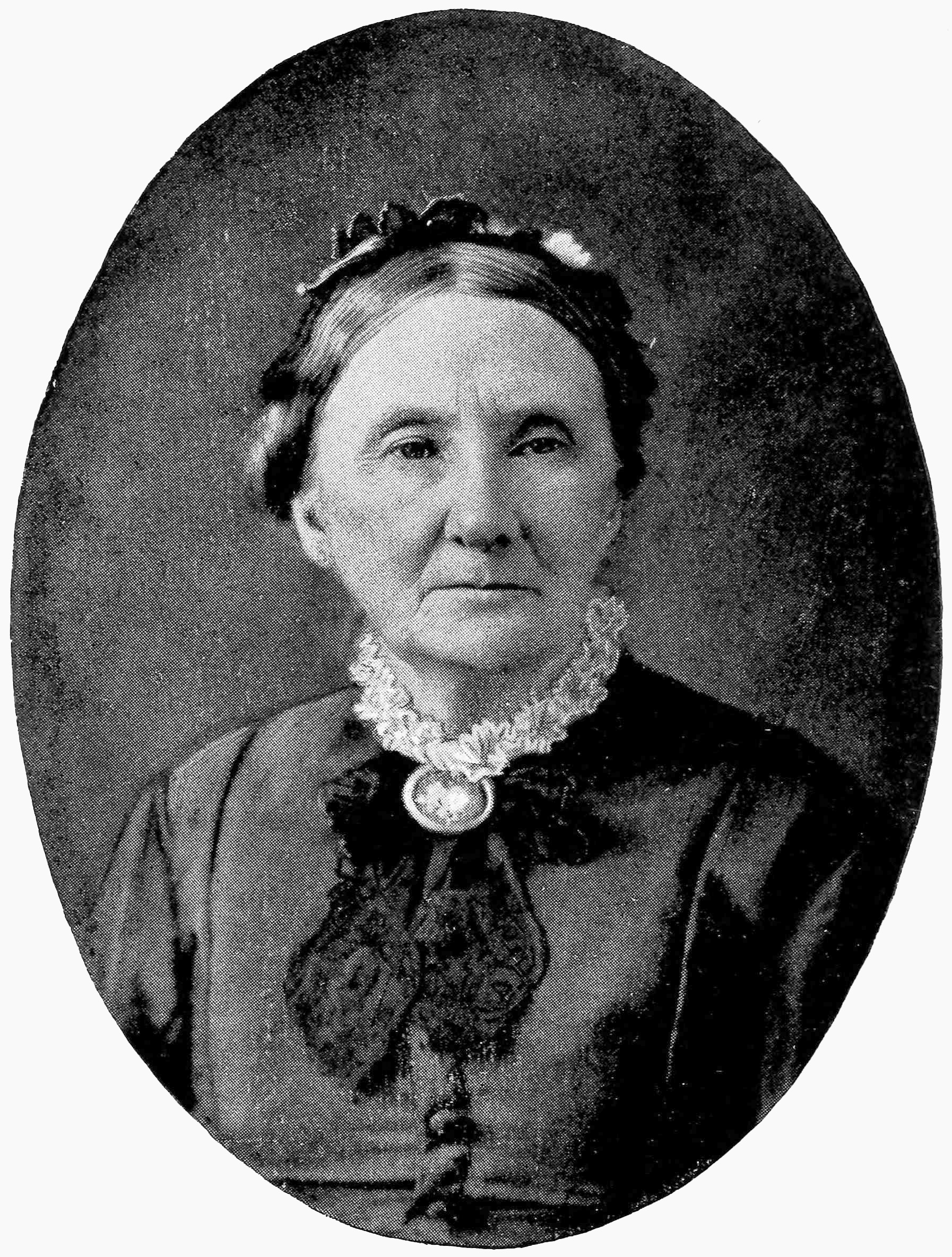 Mary Ann McKinney Alexander (1810–1888) was an American missionary to the Kingdom of Hawaii alongside her husband William P. Alexander. Their family continued to influence the history of Hawaii.